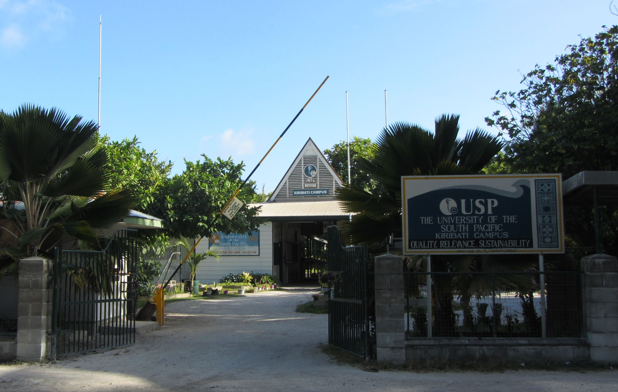 University of the South Pacific, Kiribati Campus, exterior